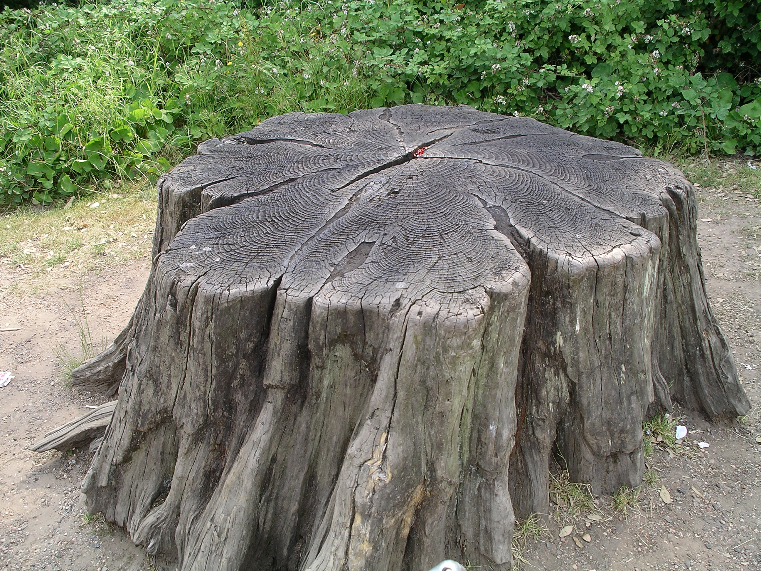 This tree was cut down in about 1969 after it was hit by lightning (about 37 years prior to this photograph being taken). It still remains rooted in the ground and it has not been sheltered from the weather. The stump is situated in a school in the midlands of the UK and has been worn down by being used as a bench by the school pupils.